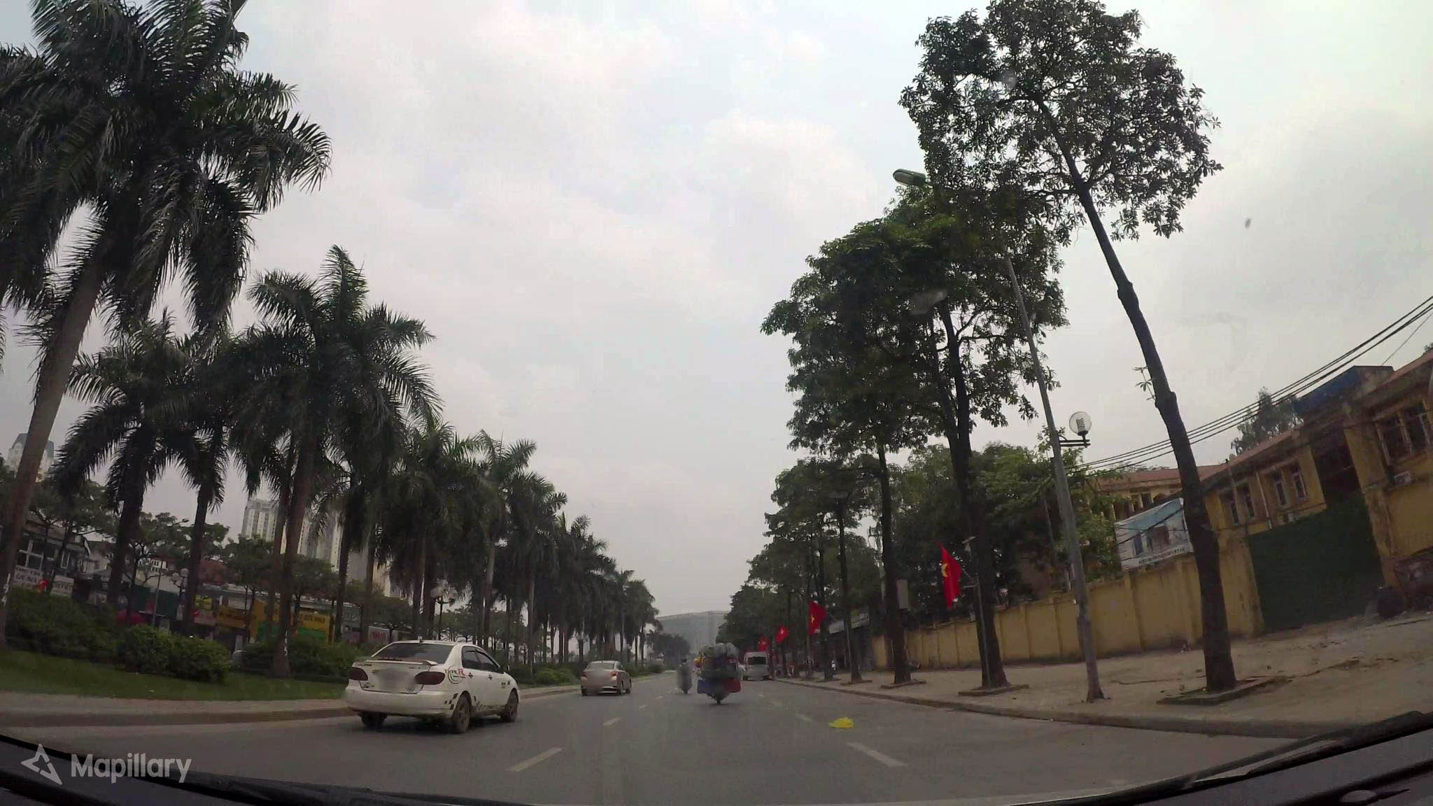 Le Quang Dao street in Hanoi